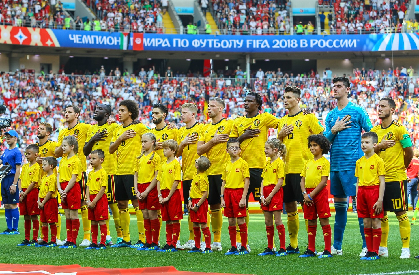 Belgium national association football team